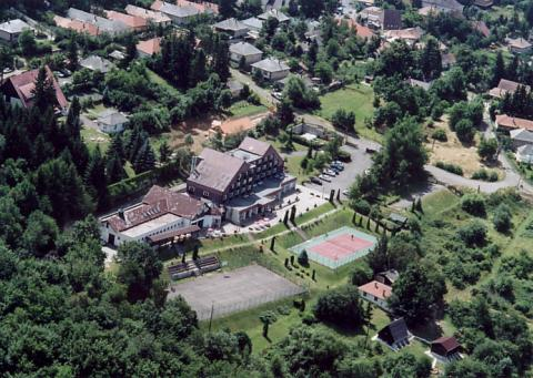 Mátraszentimre, Hungary, aerialphotography